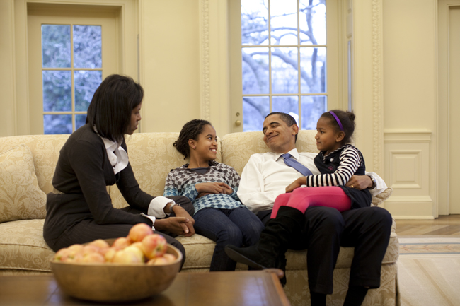 President Barack Obama relaxes on a sofa in the Oval Office with First Lady Michelle Obama and daughters Malia and Sasha.